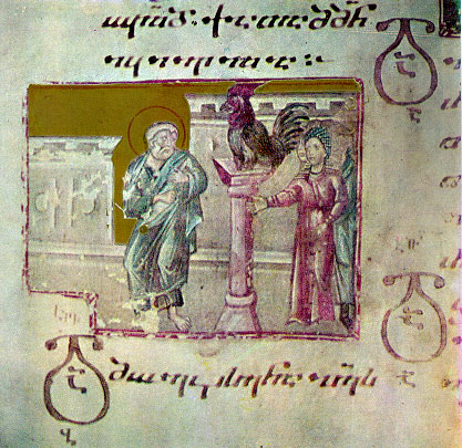 The Mokvi Four Gospels 1300 Peter's Renunciation